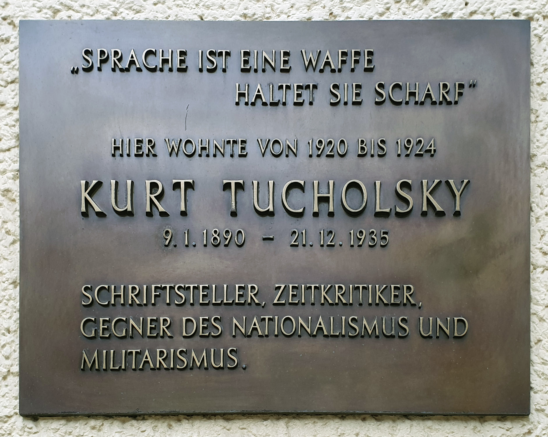 Memorial plaque, Kurt Tucholsky, Bundesallee 79, Berlin-Friedenau, Deutschland